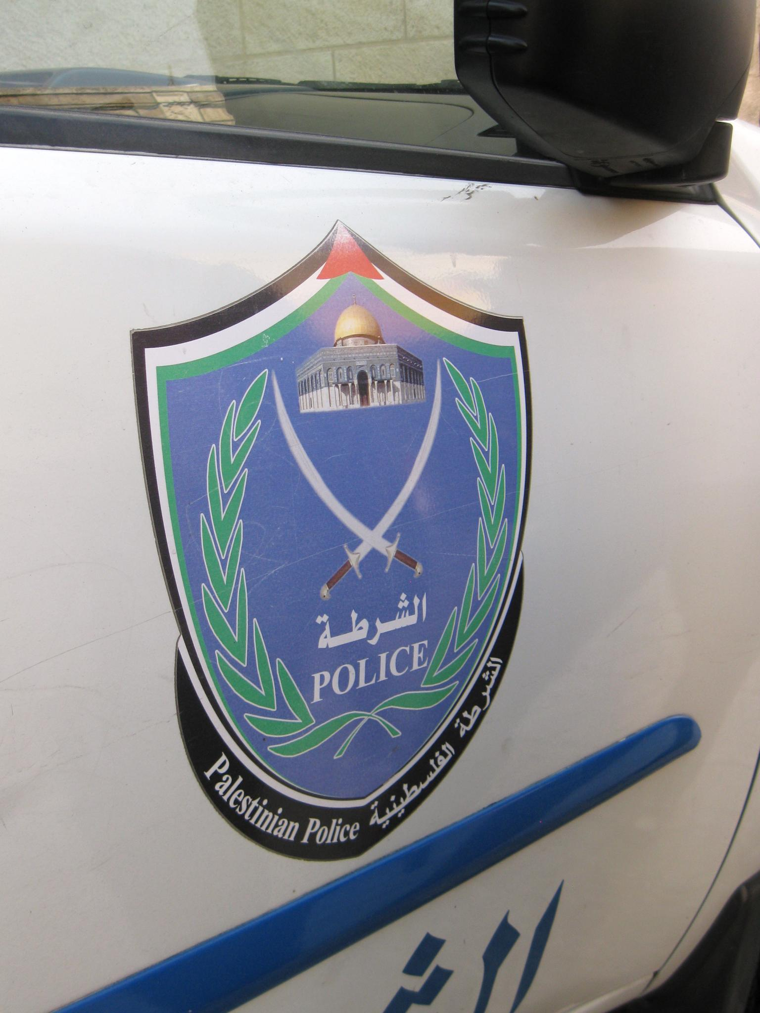 The Palestinian Police logo on one of its cars in Bethlehem, West Bank, Palestine.